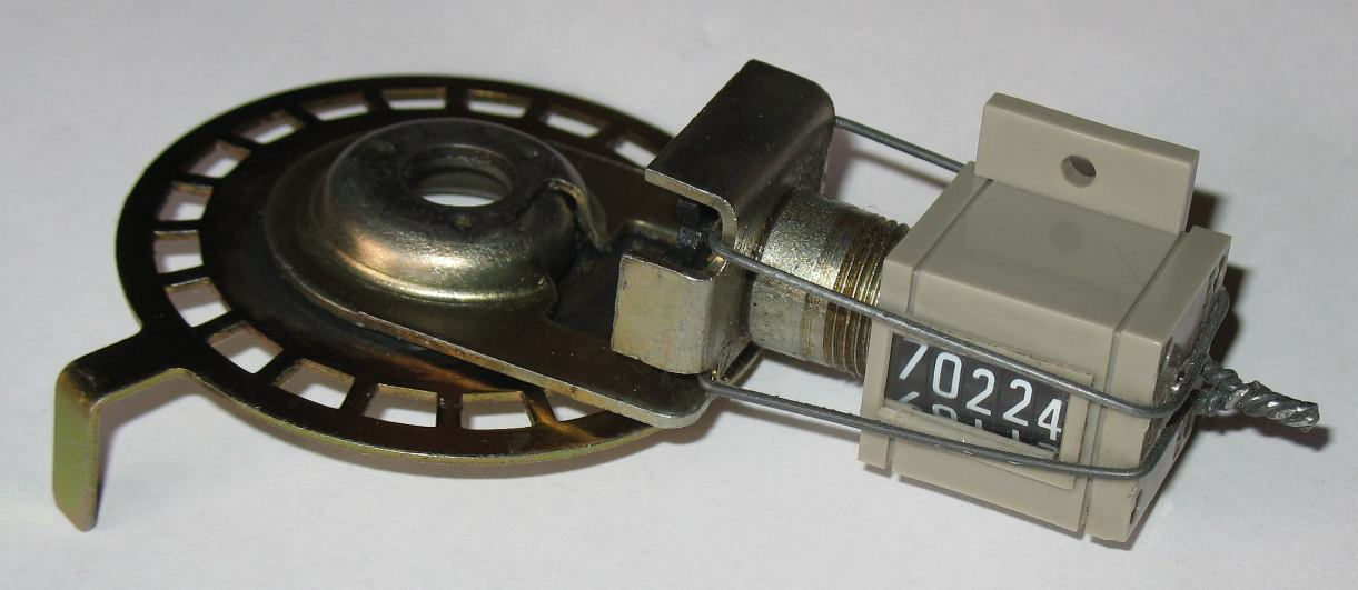 The original Jones Counter made by Clain Jones from 1973 to 1982.